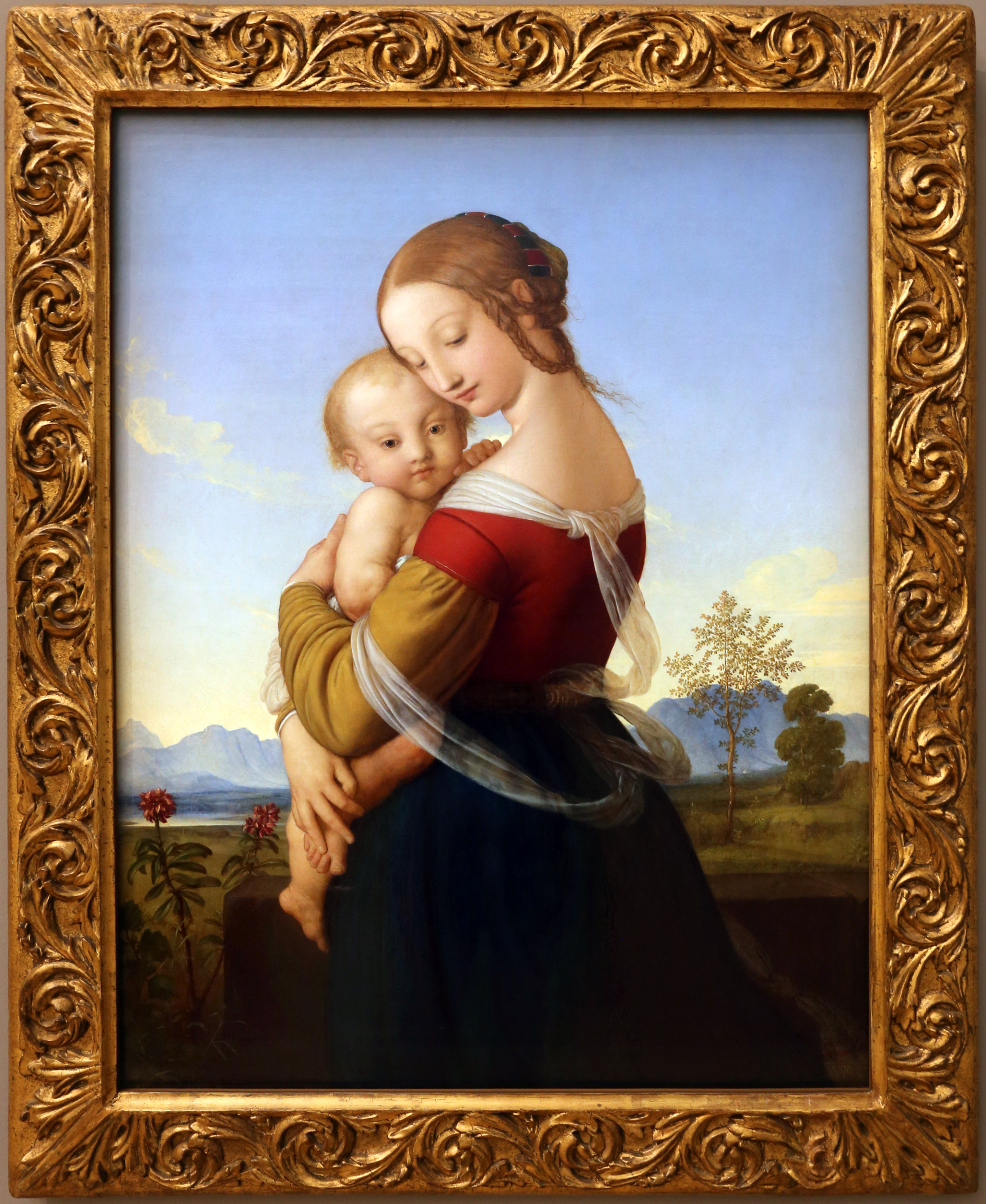 Paintings in Tate Britain